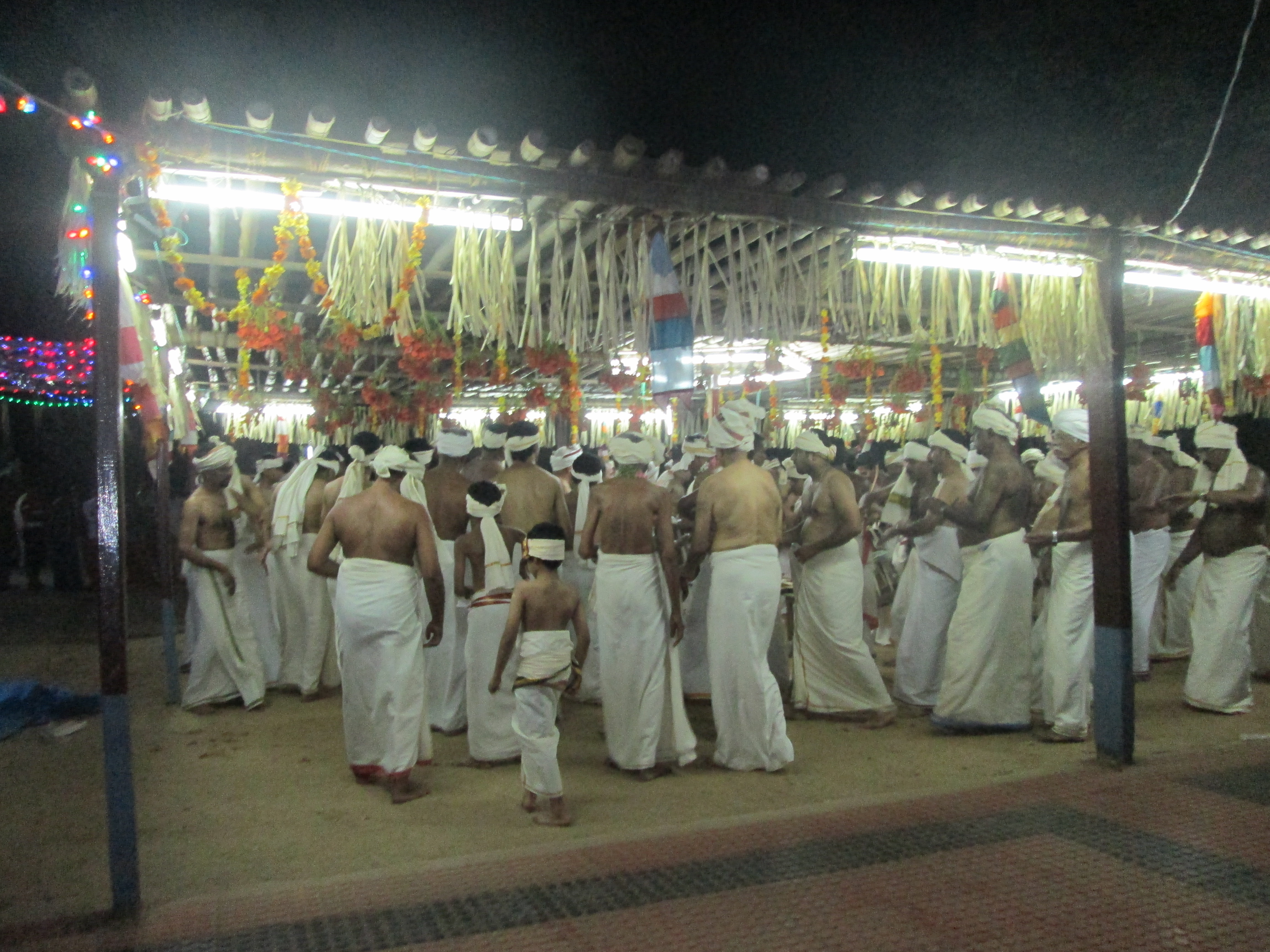 this is vattakali of kanyarkali in pallassana village